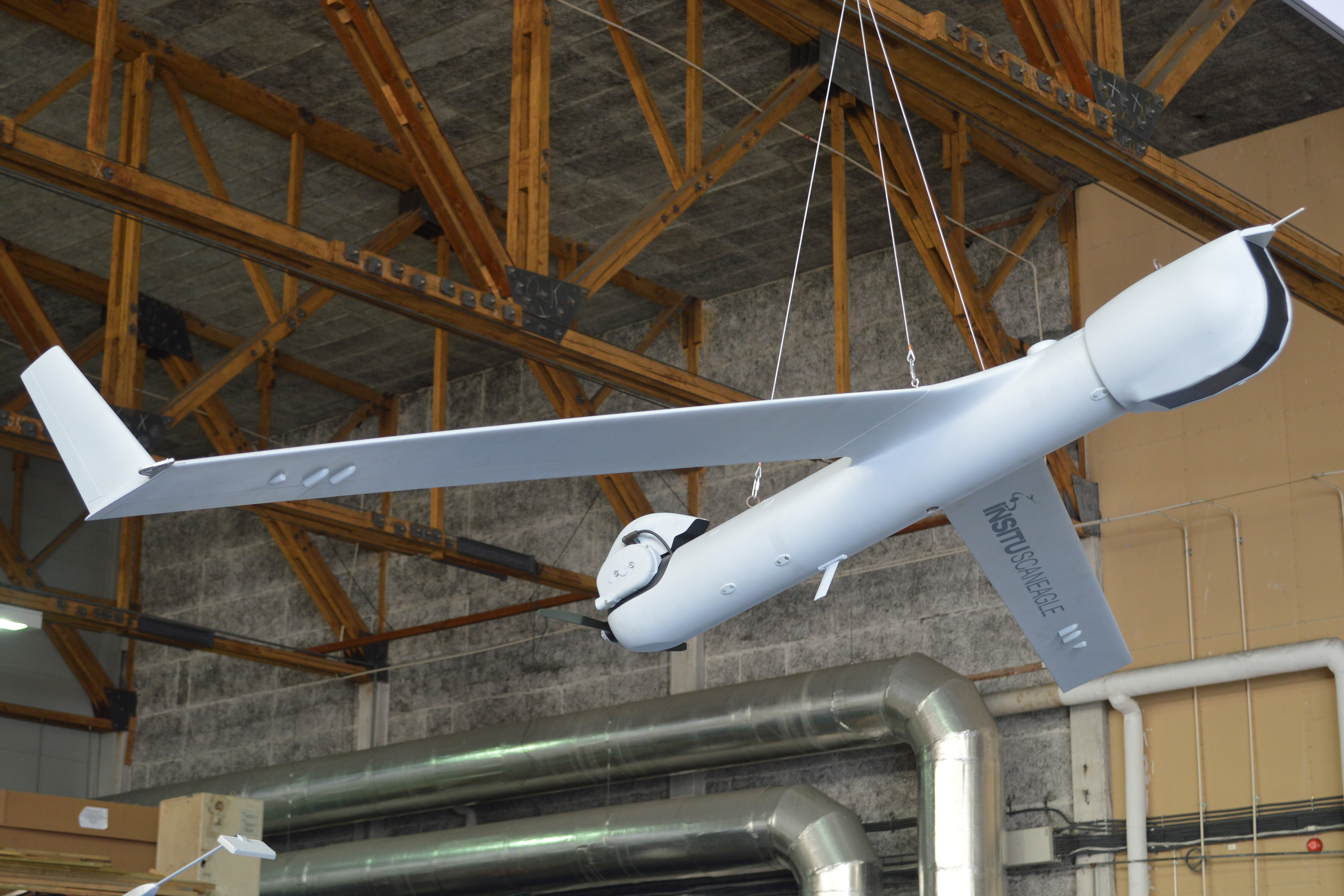 The ScanEagle is a reconnaissance UAV designed for long endurance, low level flight. The type is in both civil and military use and has been purchased by some 28 armed forces worldwide. This example, possibly a mock-up, is on display at the 2017 Sola Airshow, Stavanger Airport, Sola, Norway. 10th June 2017